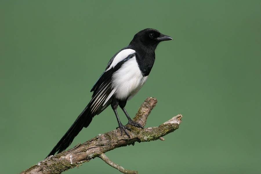 Magpie (Pica pica)